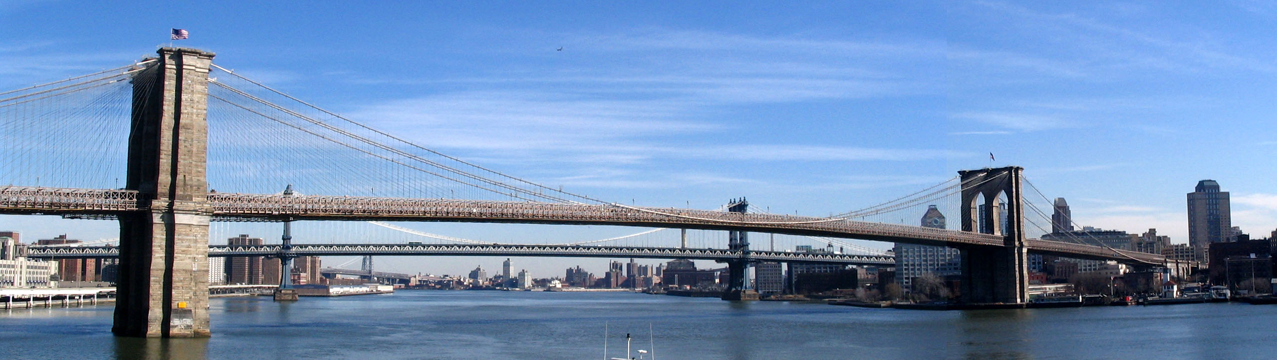 Brooklyn Bridge panorama, New York